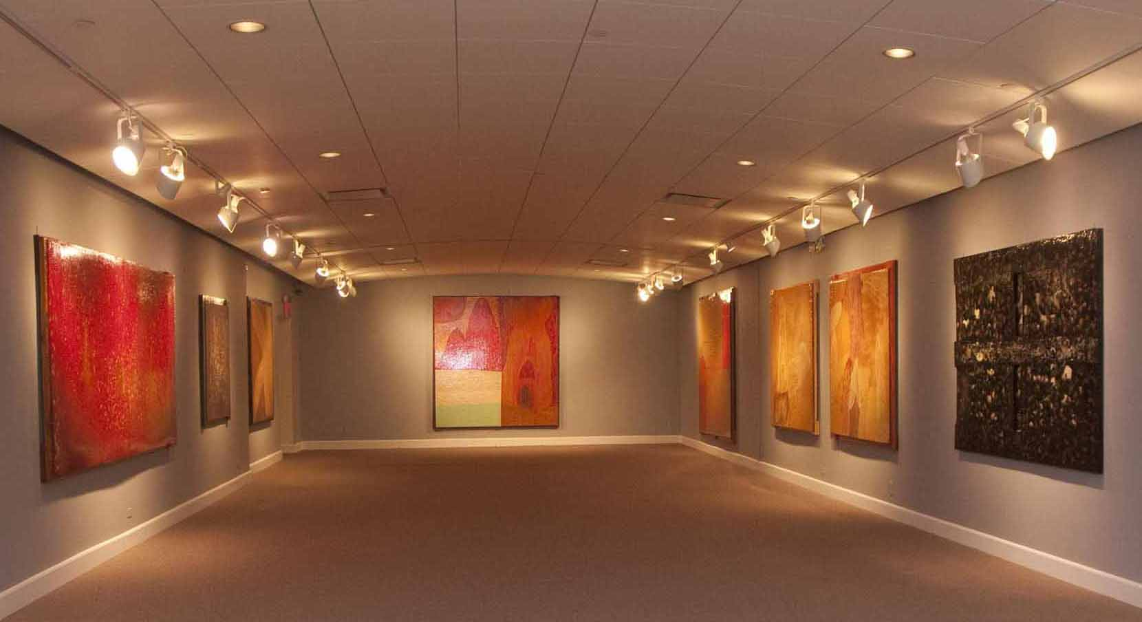 Detalle de la exposición de Lamazares en Nueva York en otoño de 2009